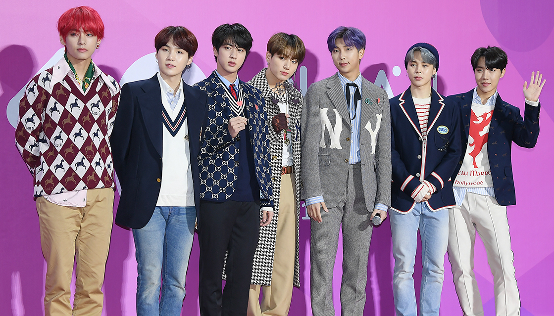 South Korean boy band BTS at the 2018 MelOn Music Awards on 1 December 2018